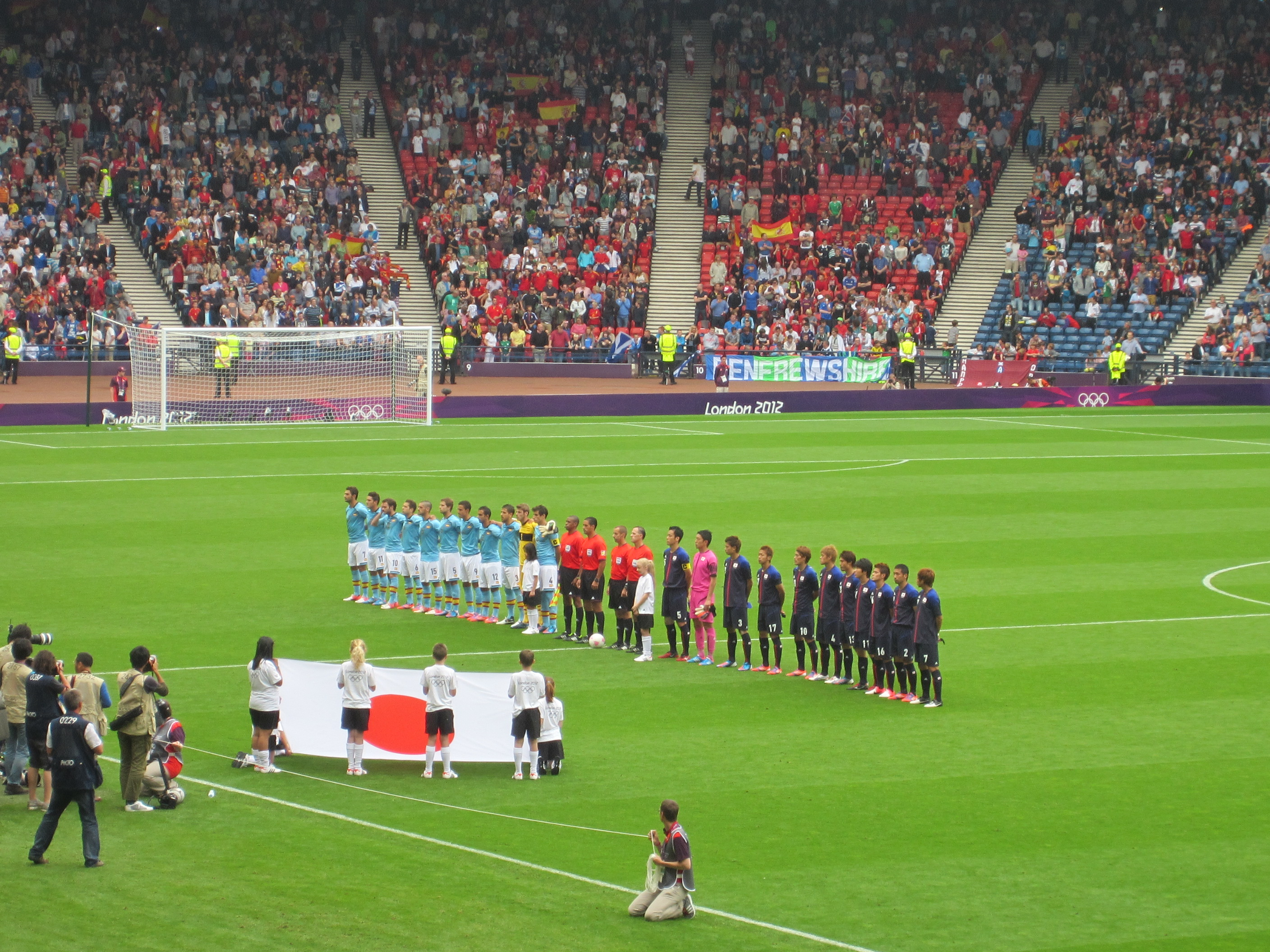 2012 Olympic Football in Glasgow